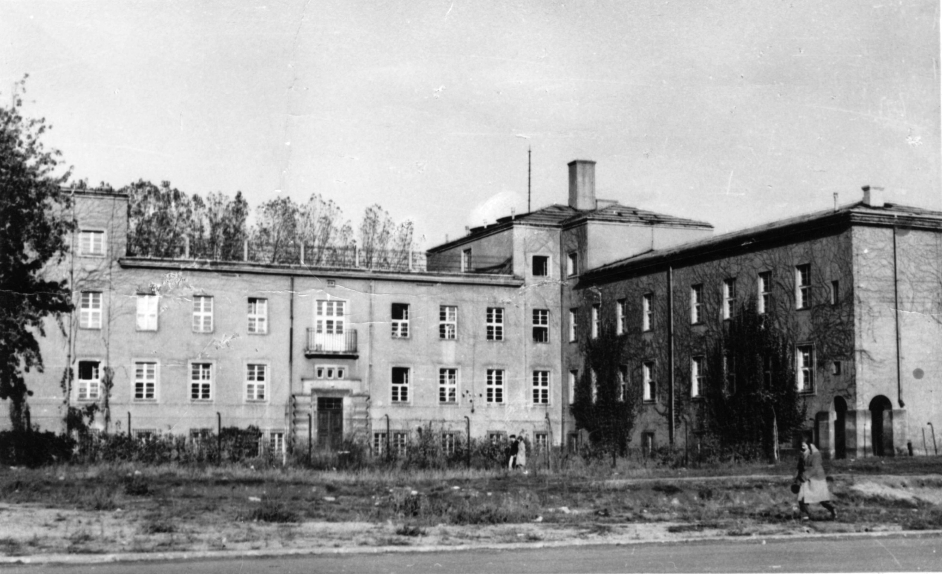 Building of "Nasz Dom" Orphanage in Bielany: Aleja Zjednoczenia 34